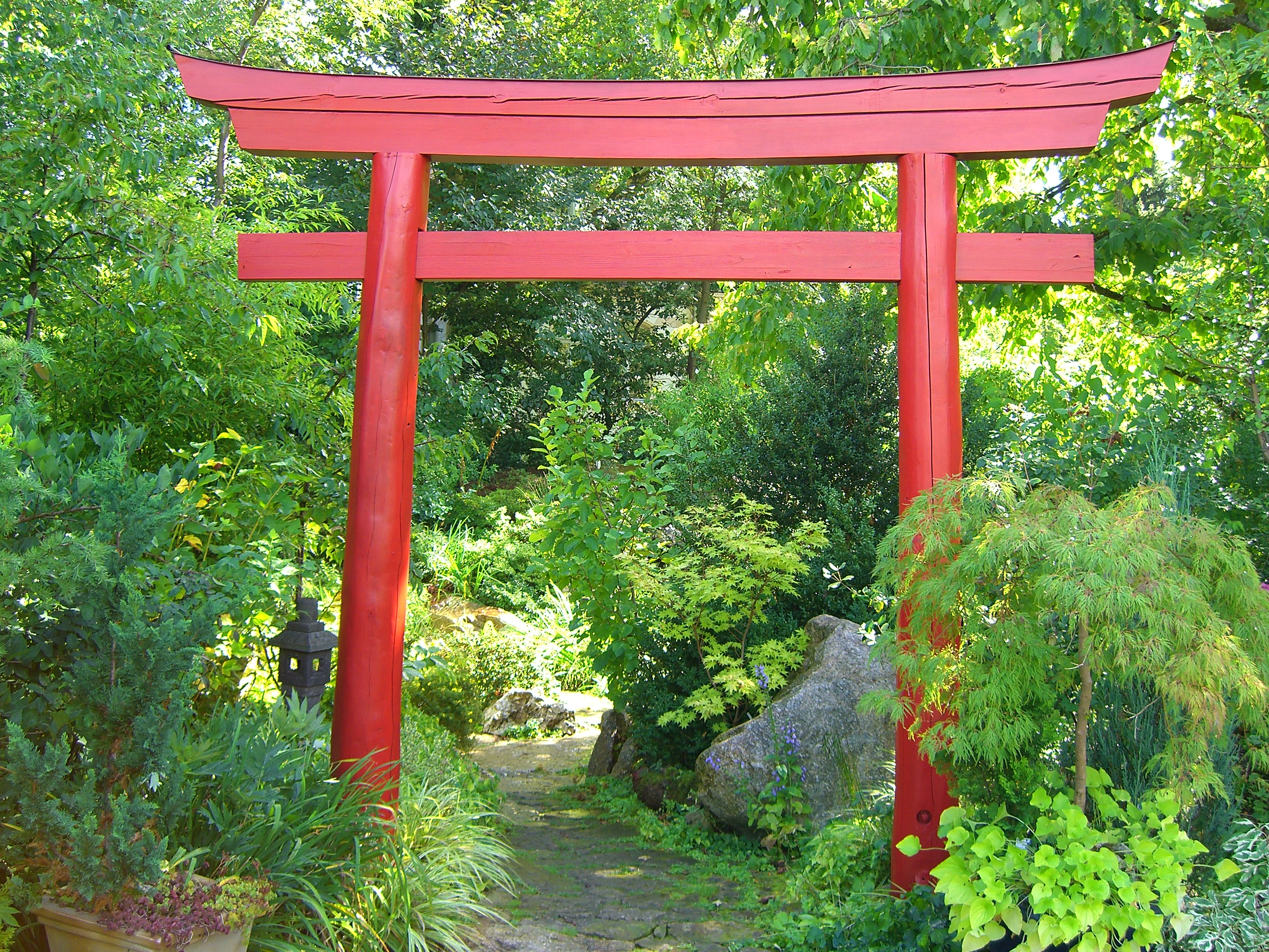 The Torii in the botanical garden of Erlangen in Erlangen, Germany.